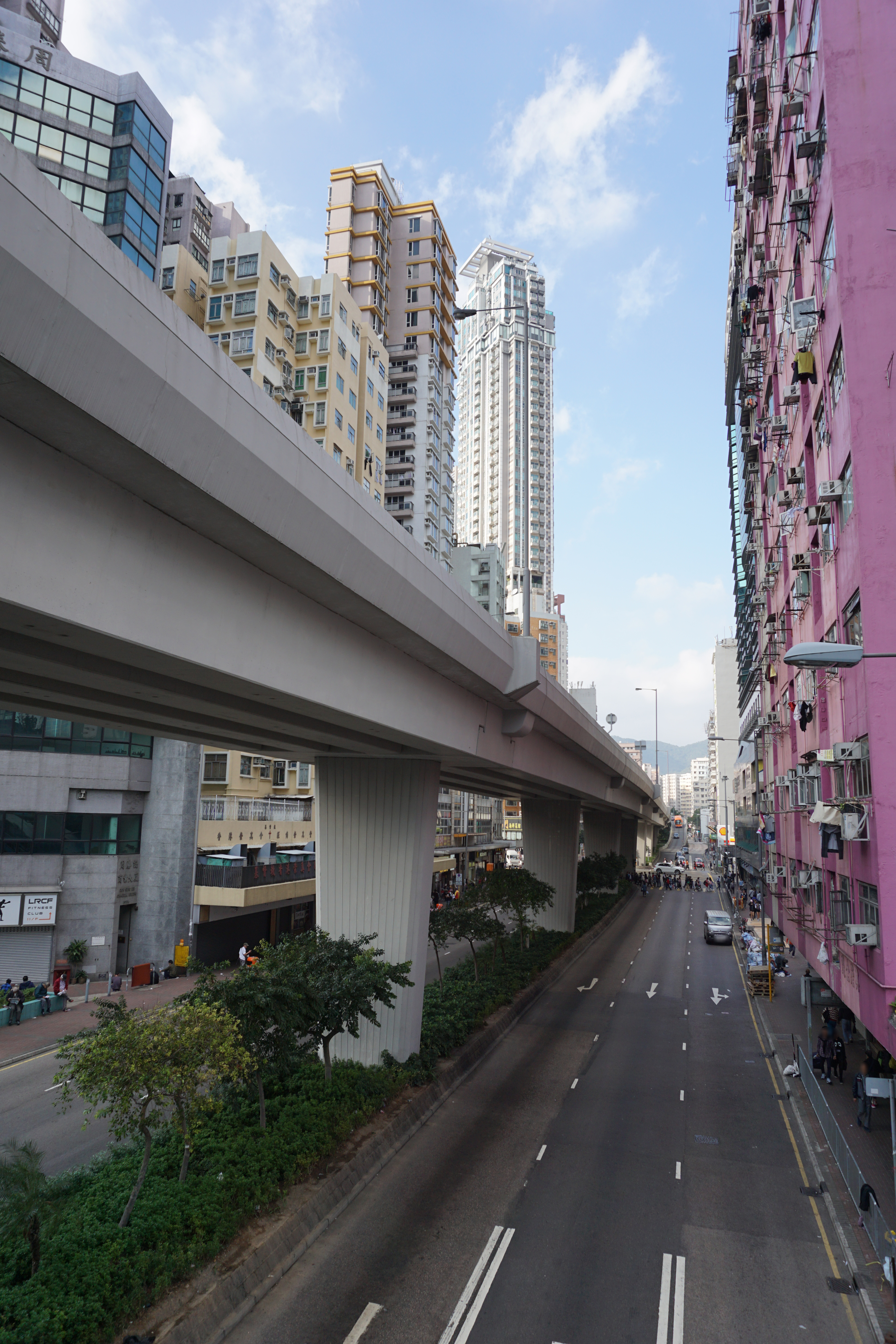 Tong Mi Road in Mong Kok, Hong Kong.